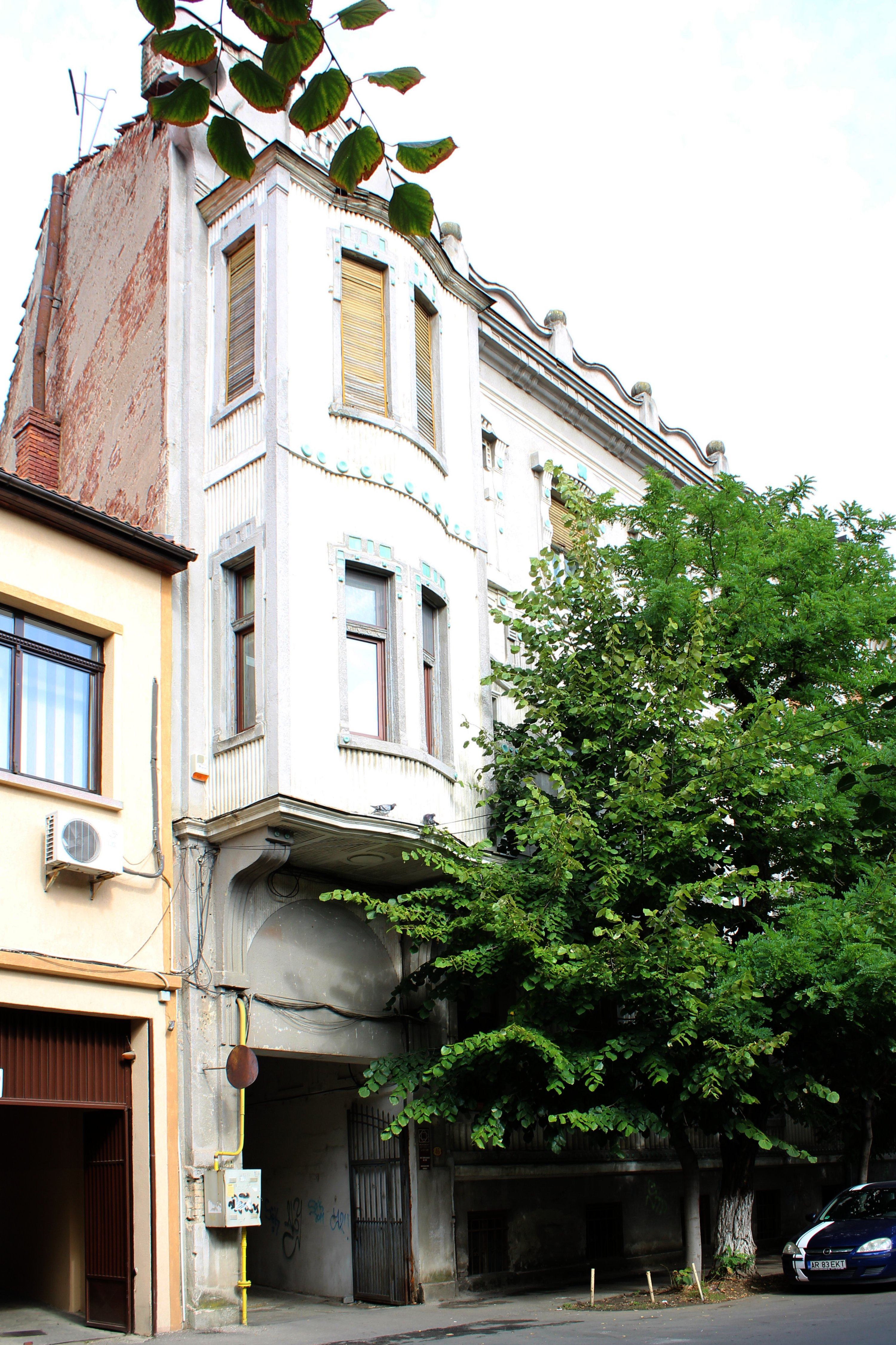 House, str Episcopiei no 46, Arad, Romania, built 1910.